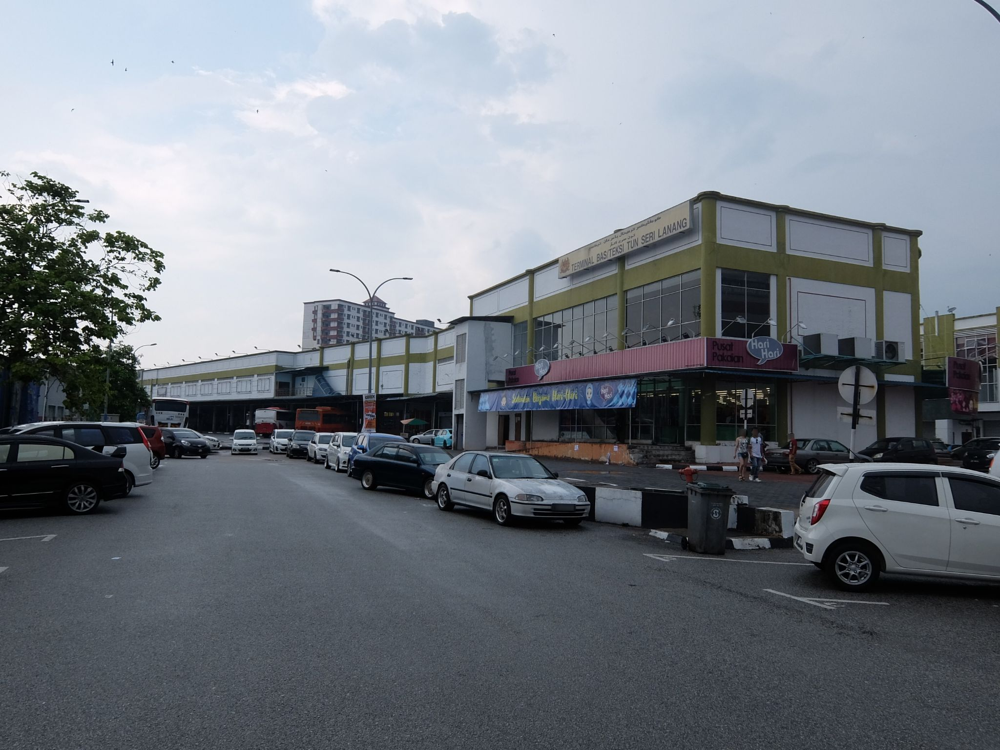 Tun Seri Lanang Bus and Taxi Terminal, Kota Tinggi, Johor, Malaysia